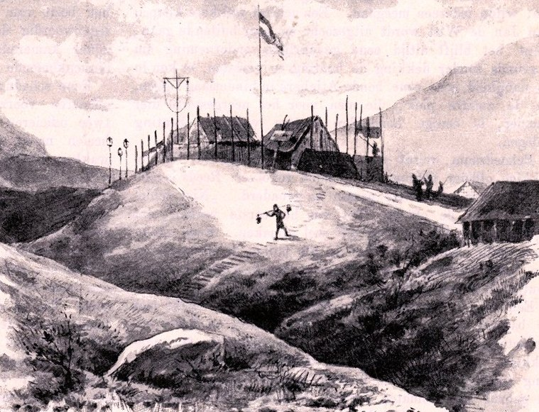 Versterking Tjot Goe